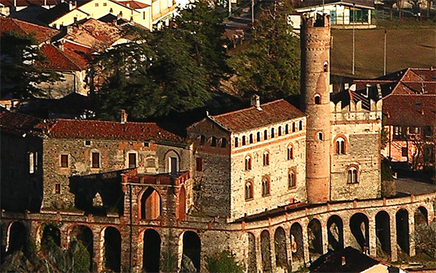 The Castle of Villar Dora, Piemonte, Italy